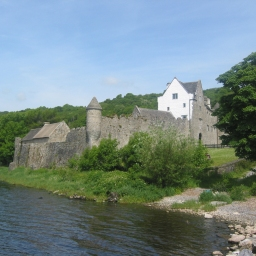 An original photograph taken by me in June 2006